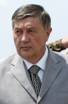 President Nebojša Radmanović of Bosnia-Herzegovina arrives at Eagle Base, Bosnia, June 30, 2007, for the turnover of the base from the United States to the government of Bosnia-Herzegovina. More than 100,000 active duty and reserve members have served at Eagle Base since it opened 12 years ago. (U.S. Army photo by Staff Sgt. Jim Greenhill) (Released)